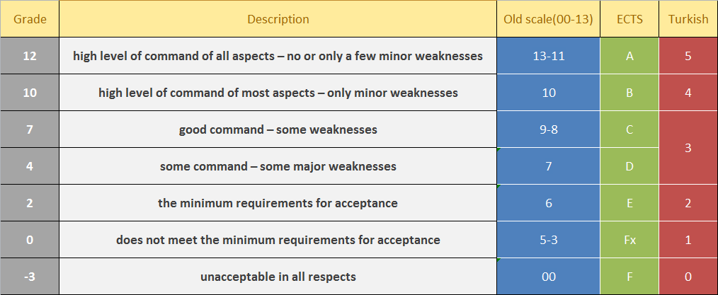 Danish Folkeskole grade table with translations to american and turkish grade systems